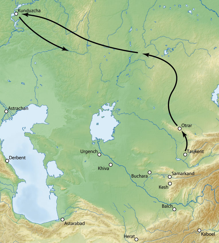 The campaign of Timur across the steppes in the hunt for Tokhtamish in 1391-1392.